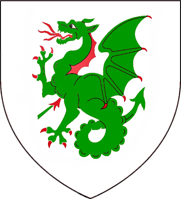 Duchy of Czersk coat of arms